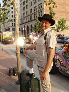 Harrod Blank, Houston Artcar Show, 2005 by Conrad Bladey (artcar Artist)